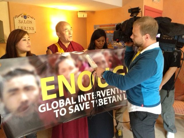 Cannes, France Global Day of Action Press Conference on the eve of the G20 Summit; November 2nd; Students for a Free Tibet (SFT), Tibetan Youth Association of Europe (TYAE), and International Tibet Network (ITN)